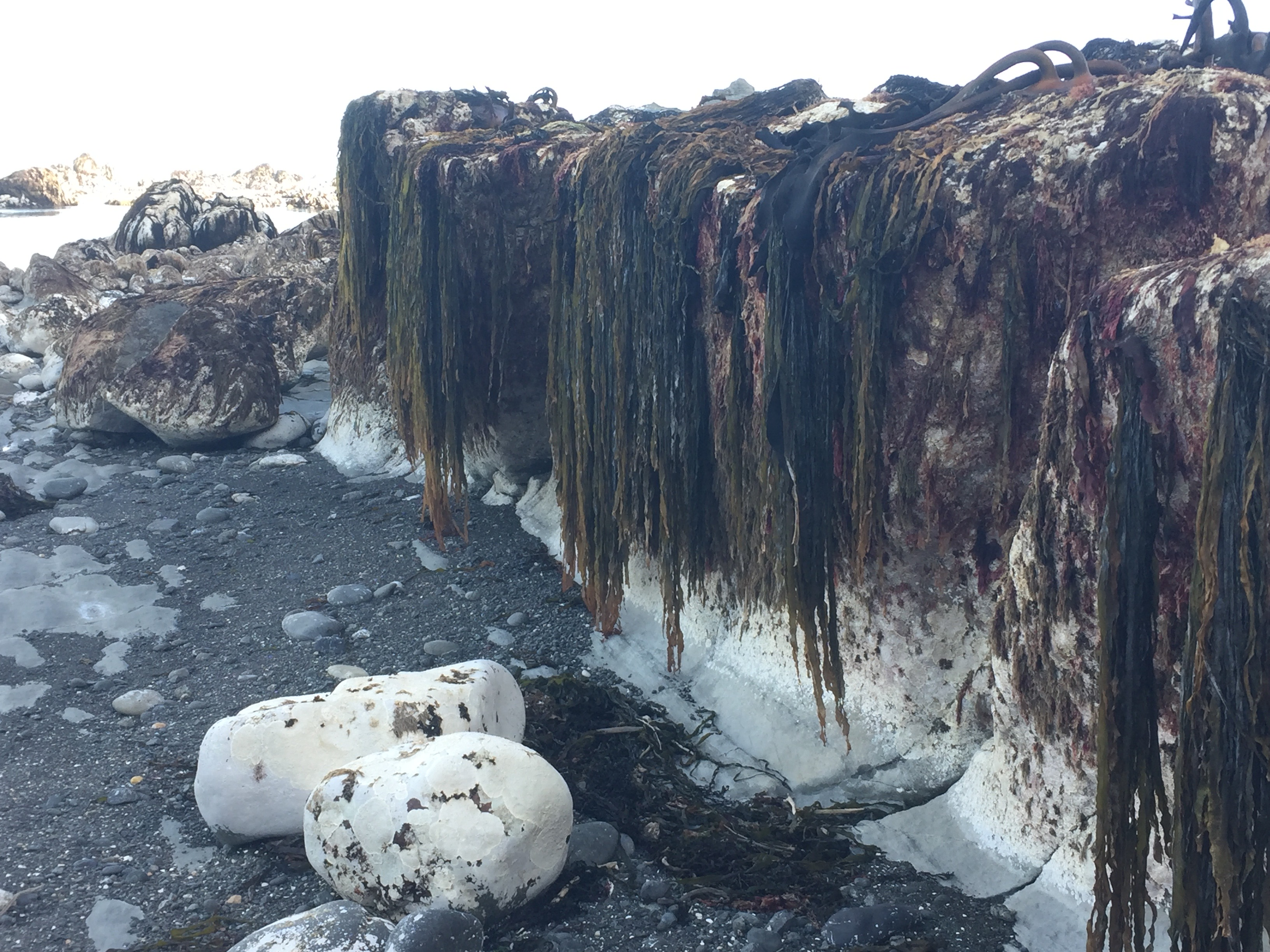 Durvillaea southern bull-kelp exposed after the 2016 Kaikōura earthquake